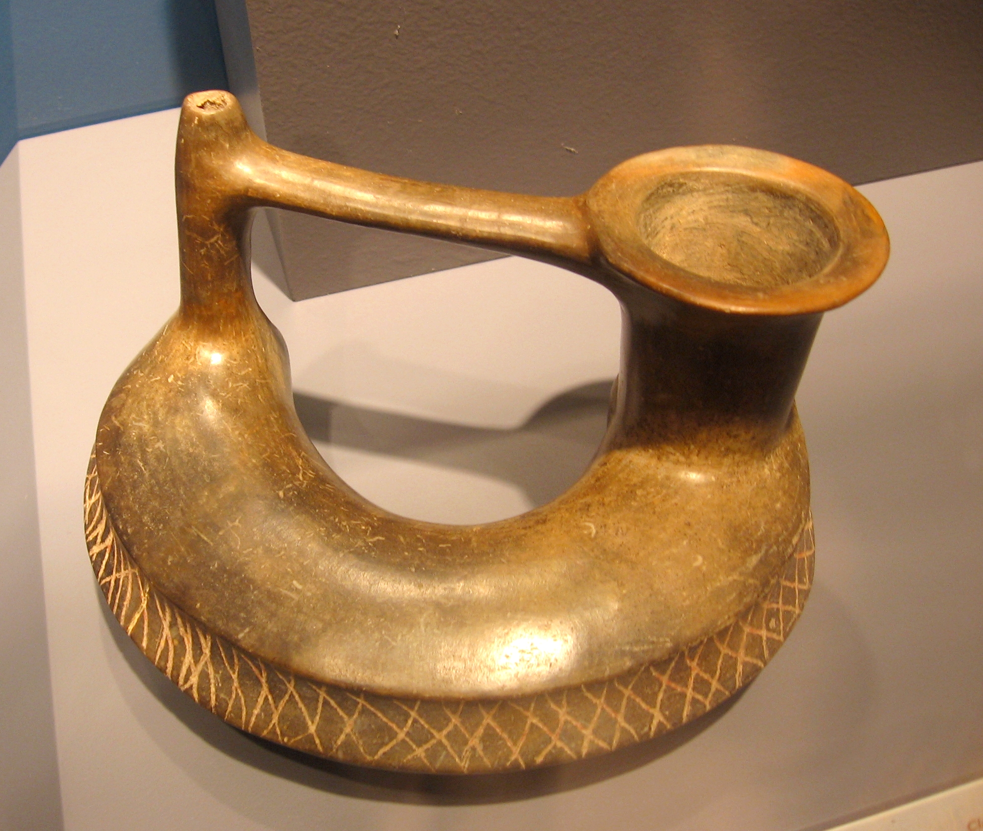 A vessel from the Mesoamerican site of Tres Zapotes, 300 BC to 250 AD.